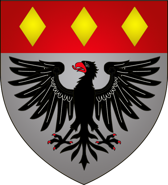 Coat of arms of the municipality of Winseler, Luxembourg